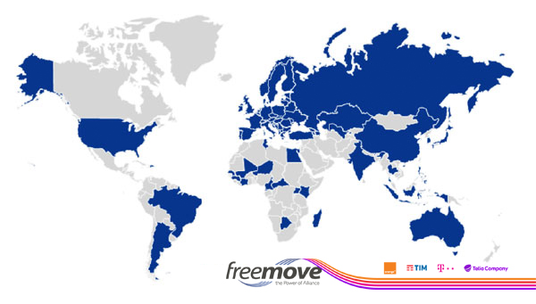 FreeMove Global Footprint Map